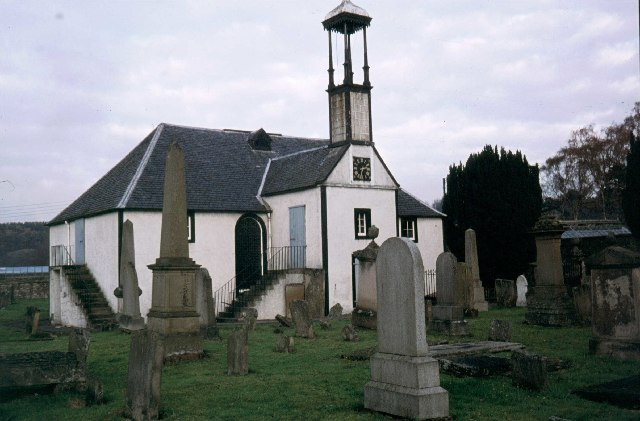 Dalserf Parish Church. Built 1655, centre transept 1892. Still arranged in old way, with pulpit in middle of long side. Outside stairs lead to three galleries. Pre-Norman hogback stone in graveyard, also monument (1753) to Rev John MacMillan, founder of RP Church.